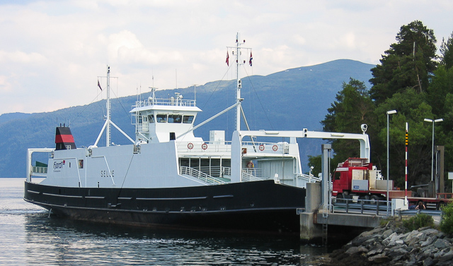 MF Selje in 2006, enroute between Anda and Lote in Nordfjord.